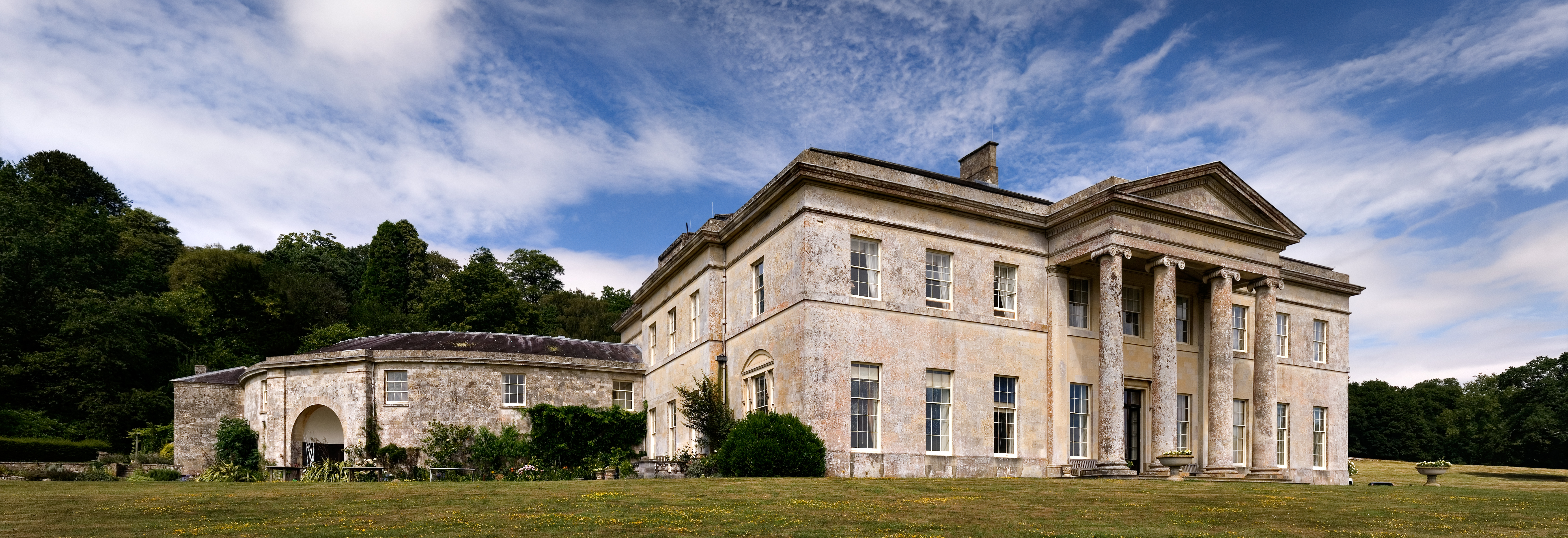 View of Philipps House from the southwest on a sunny summer day. This image is a panorama which was stitched from 5 images. Projection is flat. Horizontal field of view is approx. 80°. Vertical field of view is approx. 45°.